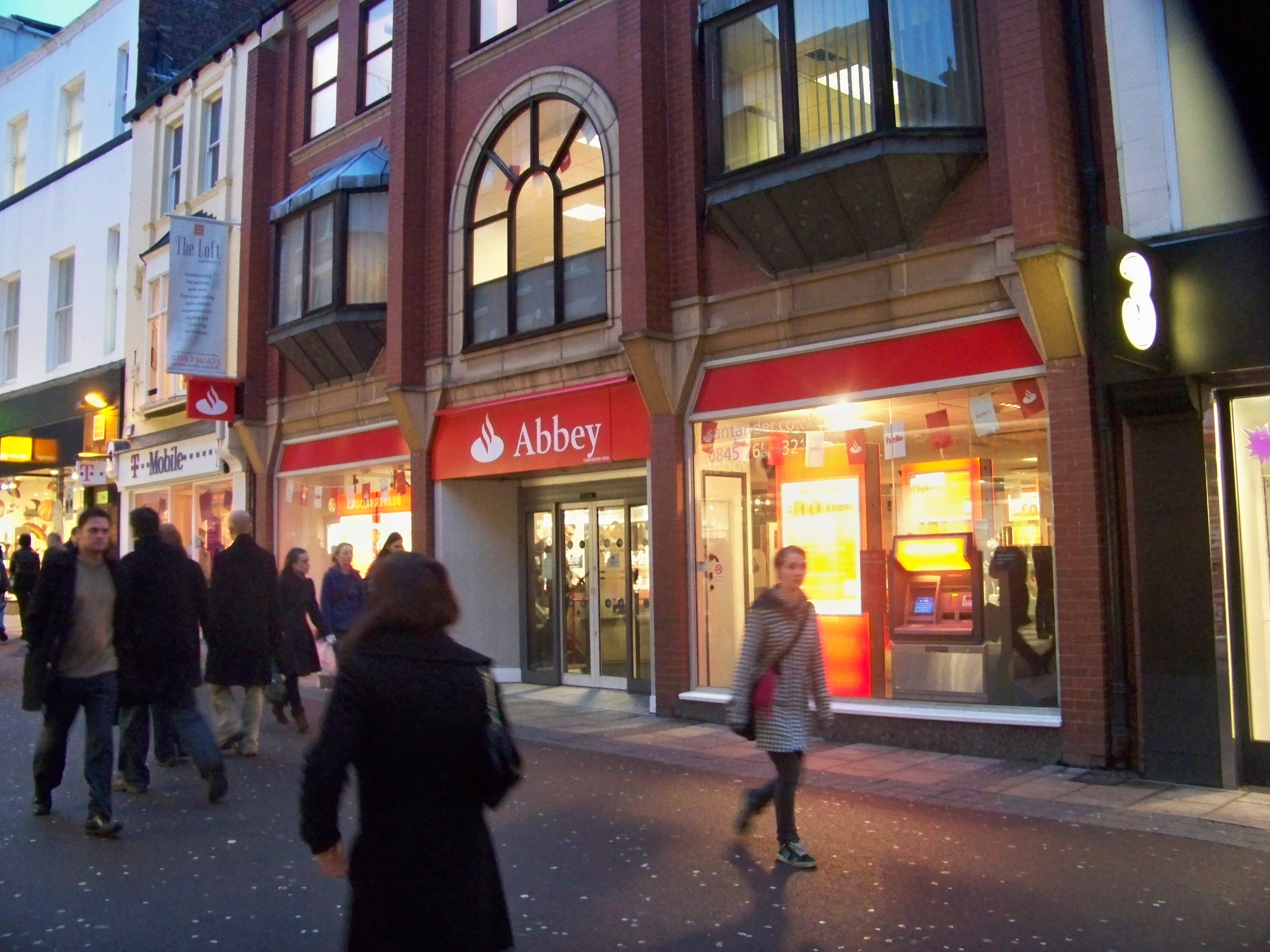 A branch of the Abbey National, taken the month the Abbey National and Bradford and Bingley are rebranded as Santander. Taken on the afternoon of Saturday the 16th of January 2010.